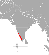 Lion-tailed Macaque (Macaca silenus) range